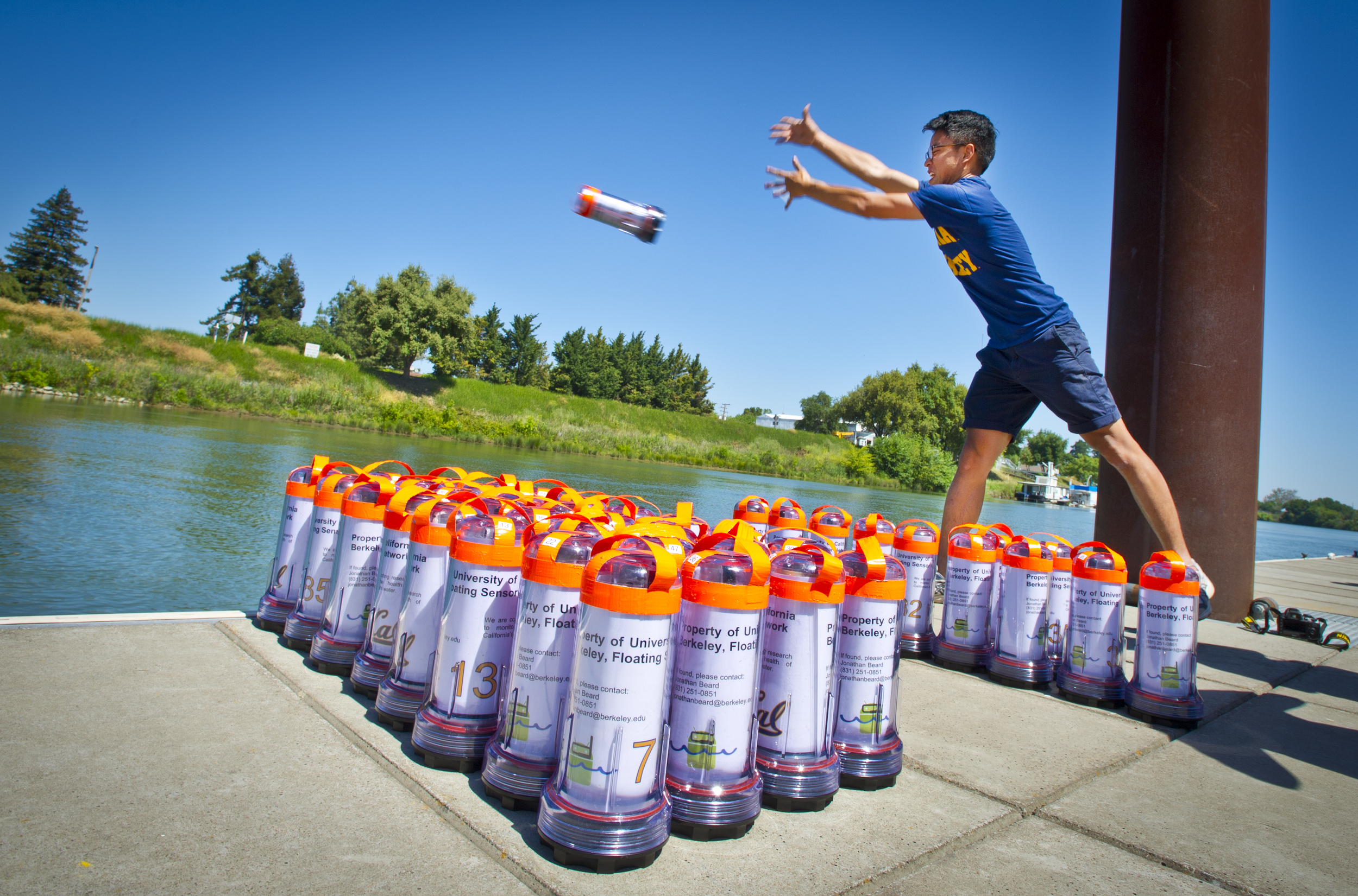 UC Berkeley engineering student Jerome Thai launches one of 100 floating sensors into the Sacramento River. The Sacramento-San Joaquin River Delta’s channel system supports California's agricultural industry and provides drinking water for 22 million Californians. The Floating Sensor Network project is a collaborative effort between the Center for Information Technology Research in the Interest of Society (CITRIS), Berkeley Lab and its National Energy Research Scientific Computing Center (NERSC), and UC Berkeley’s Departments of Civil and Environmental Engineering and Electrical Engineering. The project will collect data to help researchers and scientists better understand how water flows from the Delta to pumping stations and the San Francisco Bay. To learn more, check out the Floating Sensor Network's press release. | Photo by Roy Kaltschmidt.